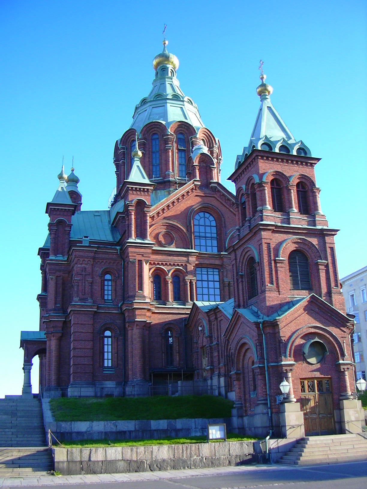 Uspenski Cathedral in Helsinki